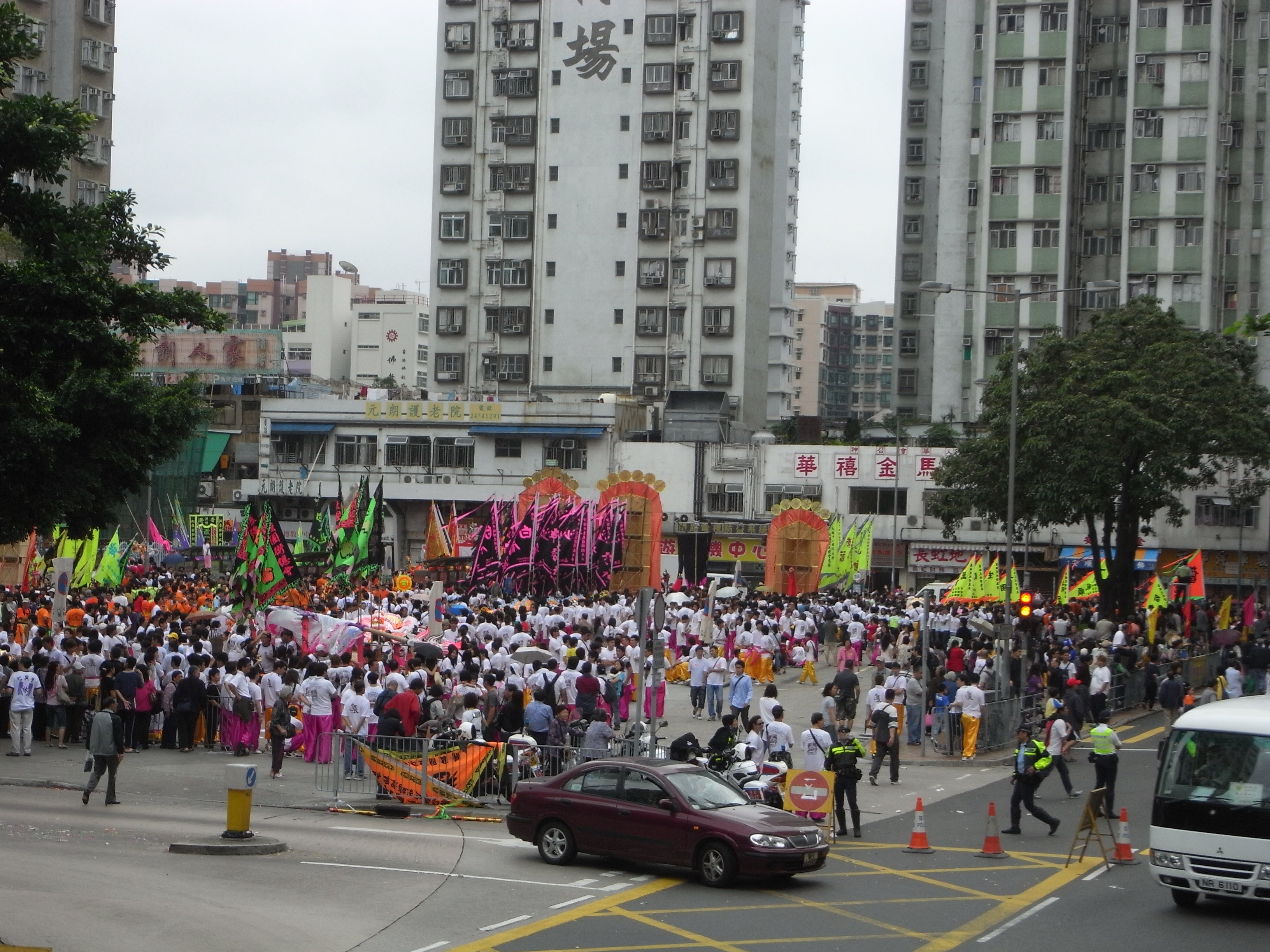 a starting point, the Parade of Heaven Goddess Festival in Yuen Long, Hong Kong